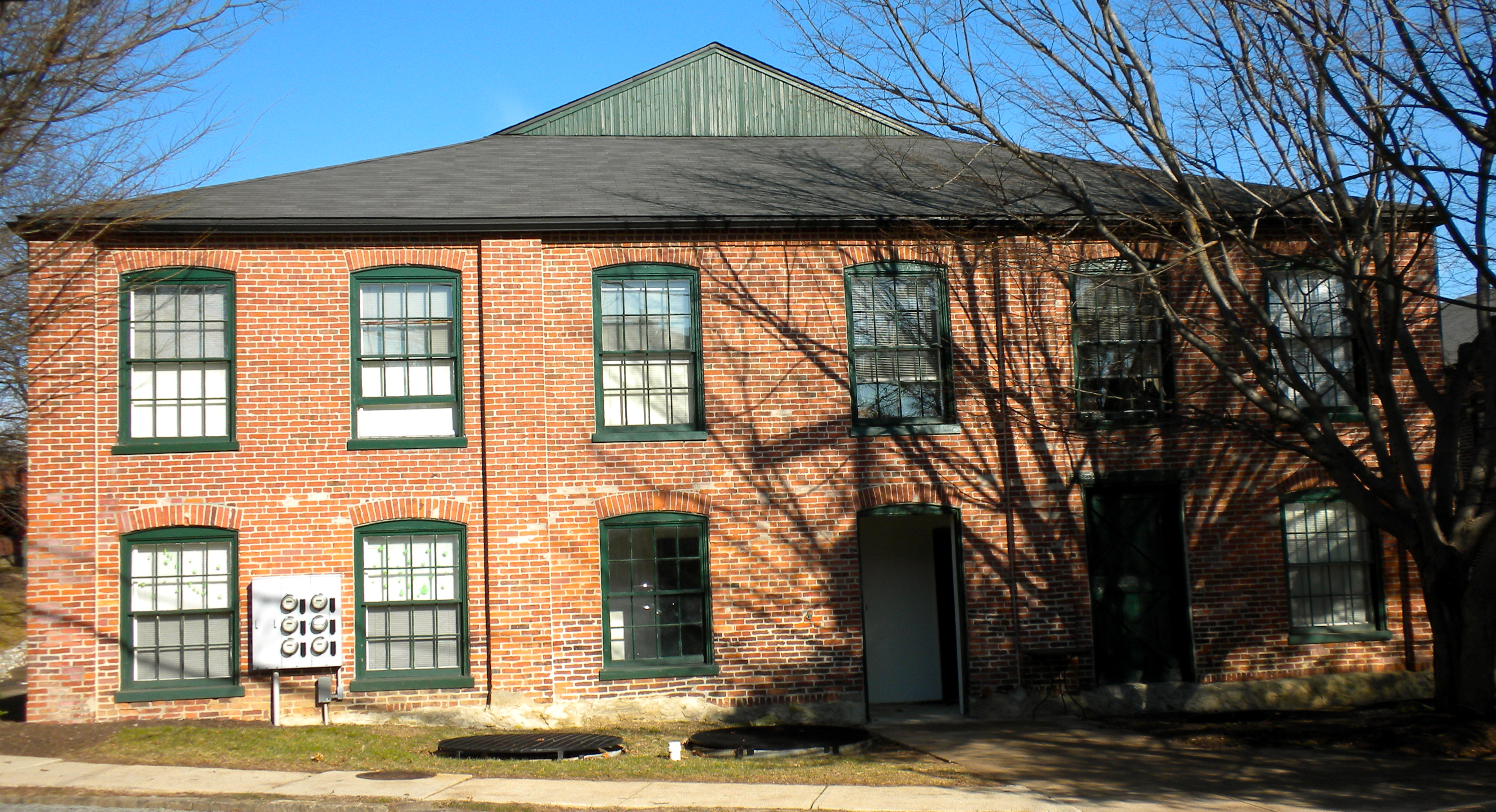 Sharples Separator Works, North Franklin and Evans Street, West Chester, PA. On the NRHP